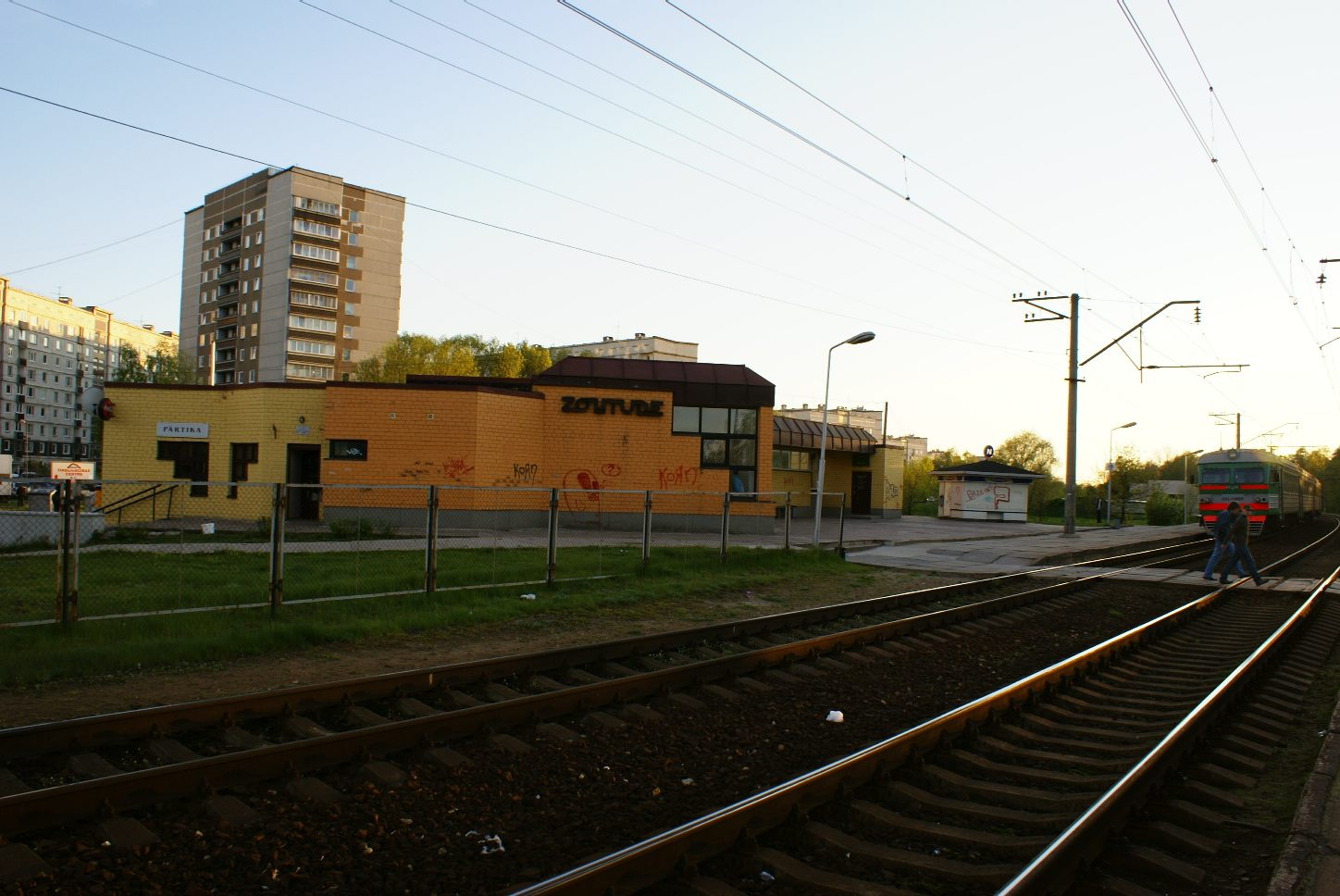 Zolitūde railway station with ER2 train.